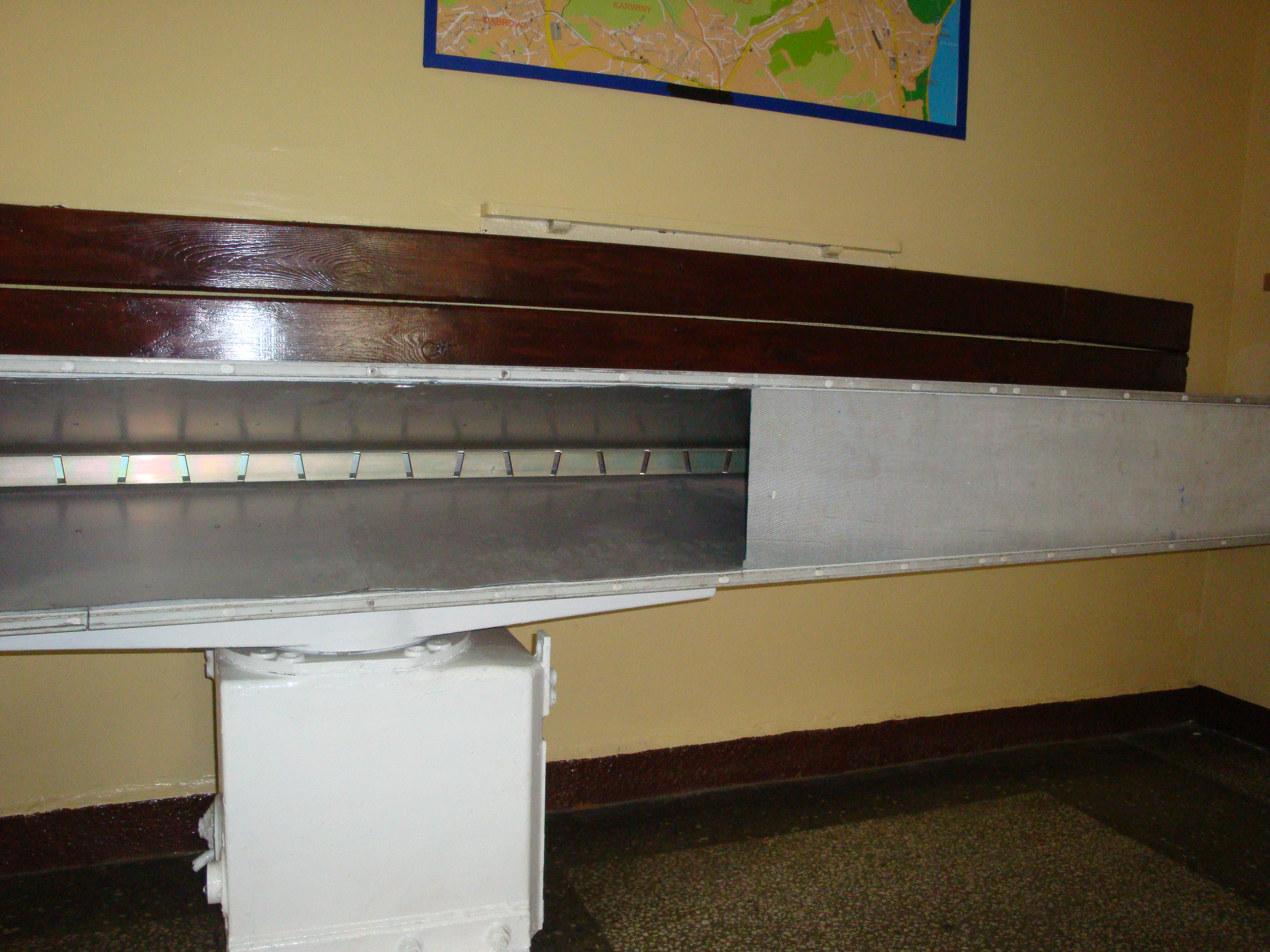 Cross section of slotted waveguide antenna of S-band (2 - 4 GHz) radar. Exhibit in Gdynia Maritime School, Poland. This common type of marine radar antenna consists of a waveguide in a V-shaped metal reflector, with many slots cut in it. It radiates a narrow vertical fan-shaped beam of microwaves, perhaps 15° high and 2-3° wide, perpendicular to the long axis of the antenna. When installed in a ship, a motor in the white box below it rotates the bar-shaped antenna about a vertical axis, scanning the beam around the horizon, to search for other ships.